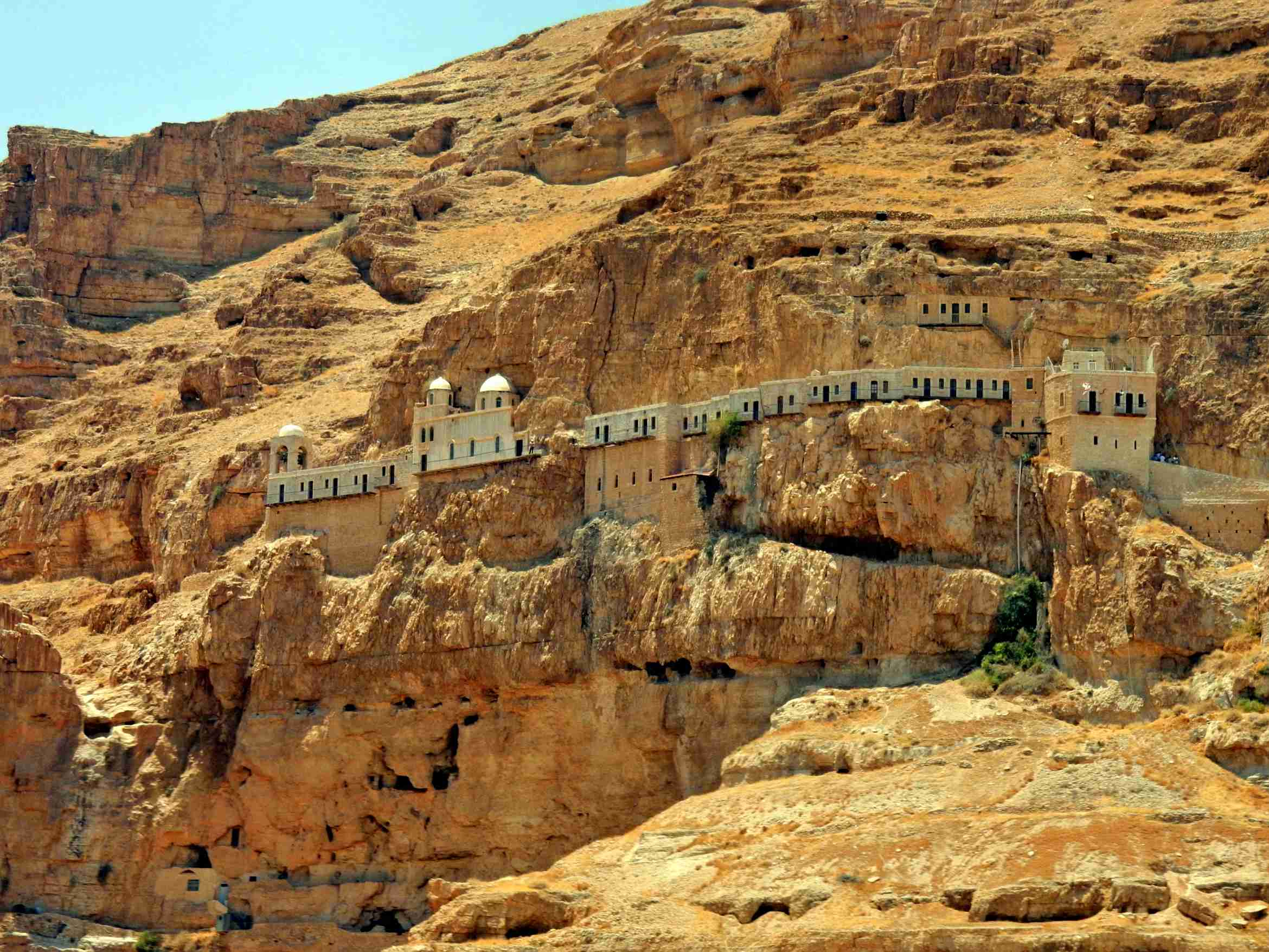 Palaestina | Jericho | Quarantal View to the Monastery of the Temptation in Jericho. Blick auf das Kloster der Versuchung im Westjordanland. You're welcome to use this picture free of charge, as long as you follow the license terms. As a matter of courtesy a link (dofollow links are welcome!) to is much appreciated. Thank you! ————————–—–—–—–—–—–—–—–—–—–—–—–—–—–—– Du kannst dieses Bild gemäß der Lizenzbestimmungen unentgeltlich nutzen. Über eine Verlinkung (dofollow am liebsten) auf freuen wir uns. Danke!